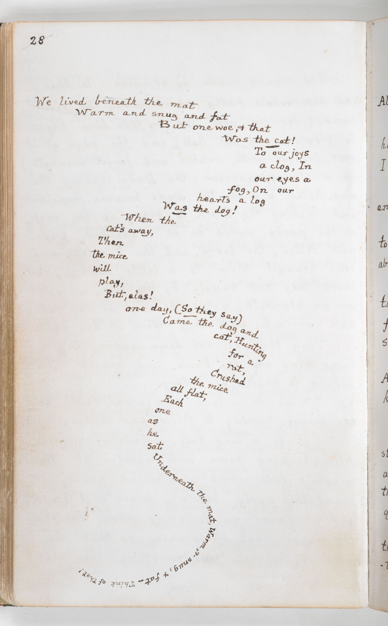 A handwritten page of the original manuscript of Alice's Adventures Under Ground, illustrated by the author. Held and digitised by the British Library.